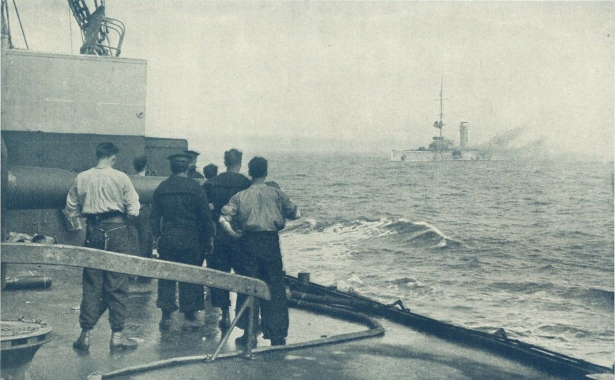 Titleː A Remarkable Camera Record of the Sinking of the German Cruiser Mainz off Heligoland August 28th 1914. A photograph taken from the deck of a British cruiser just before the Mainz sank, In the foreground British sailors watch the Mainz on fire. The text indicates the photo was taken from the deck of one of the British cruisers present, and shows a British gun crew standing by their 6 inch gun. The Mainz is seen on fire, minus two after funnels and a mast, shortly before heeling over and sinking.